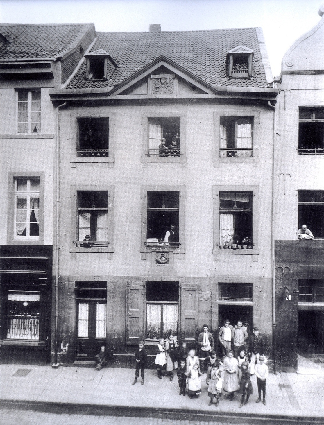 t